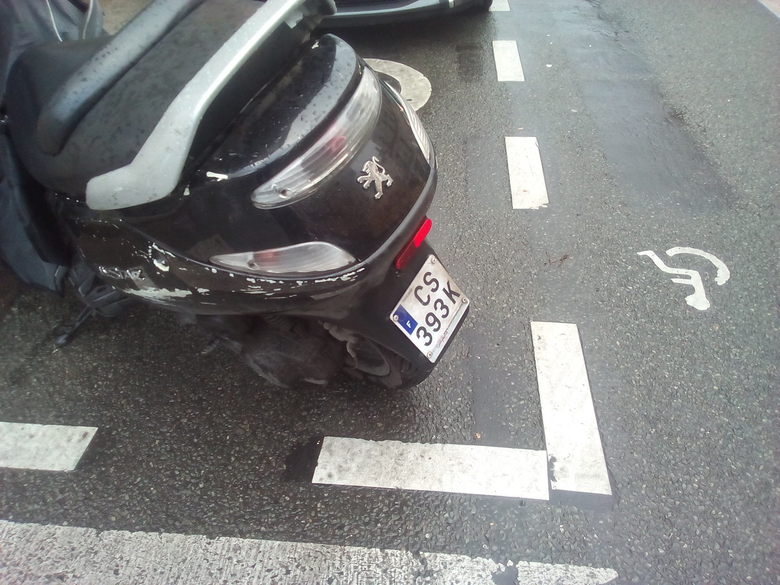 bike on disabled parking